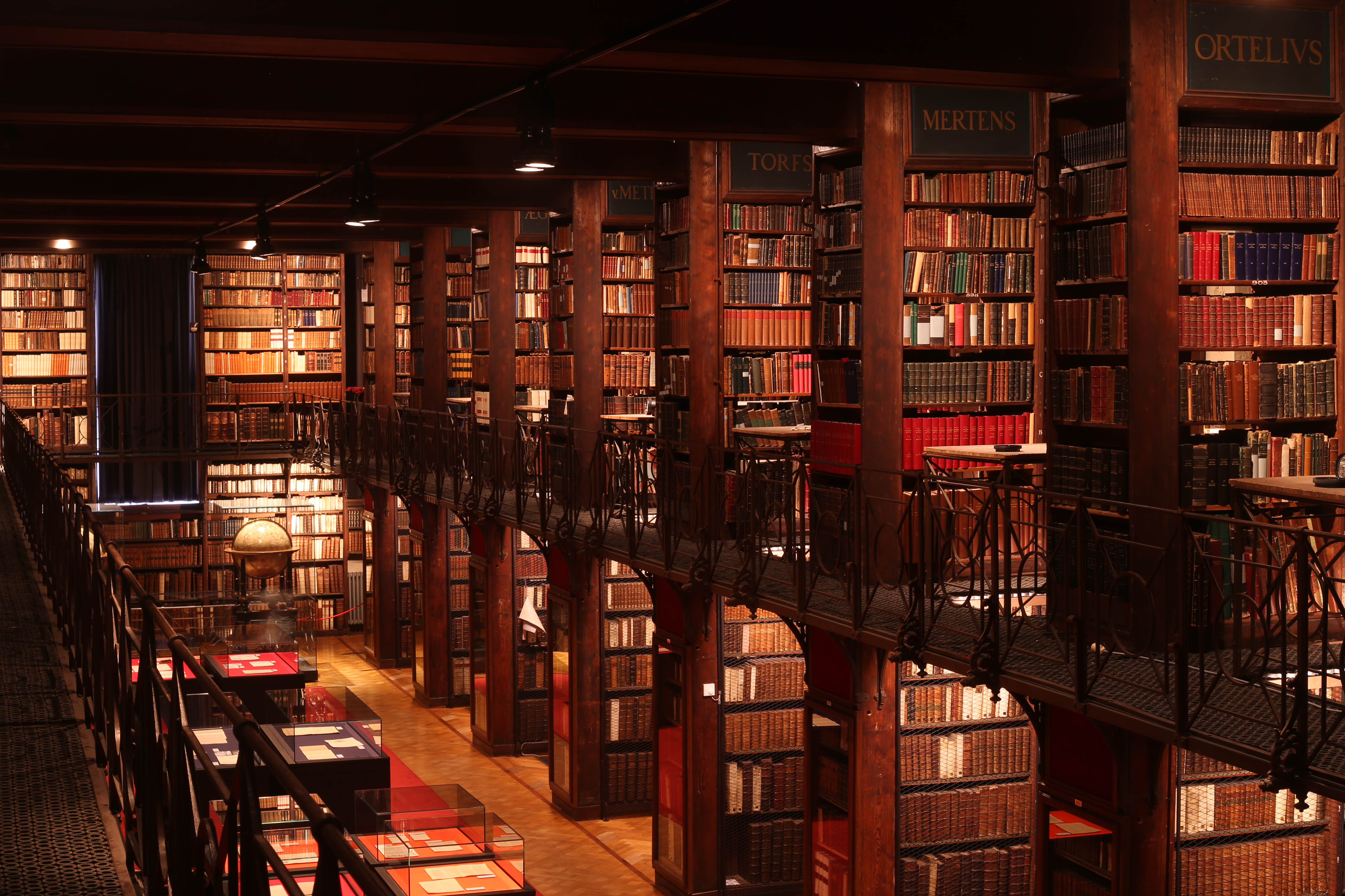 The Nottebohm Room, Hendrik Conscience Heritage Library, Antwerp, Belgium This is a file created at the museum: Hendrik Conscience Heritage Library in Antwerp